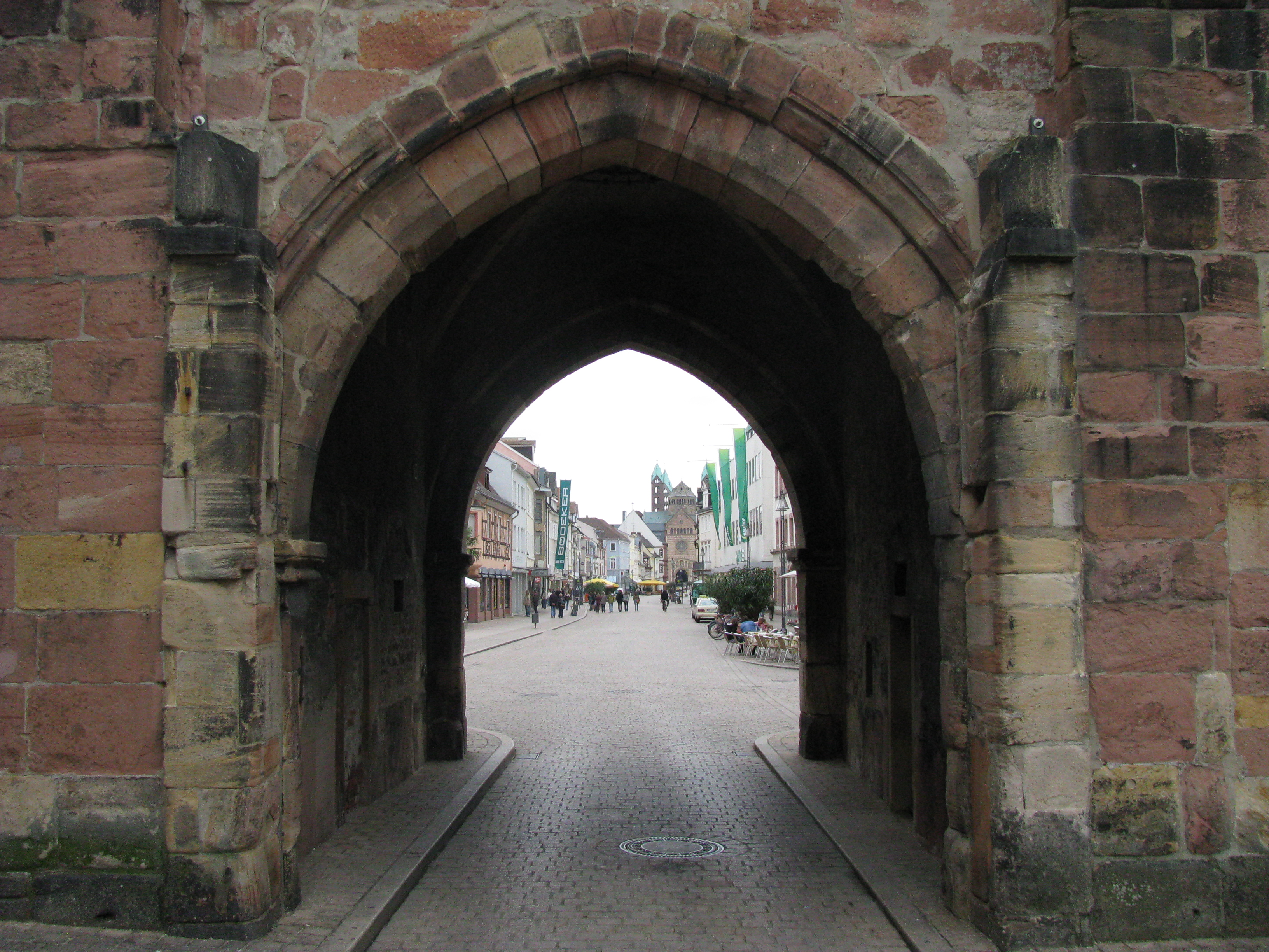 View down Maximilianstrasse, the main street of Speyer, from the old town gate "Altpörtel". In line with the main town entrance is the Speyer Cathedral at the other end of the street.